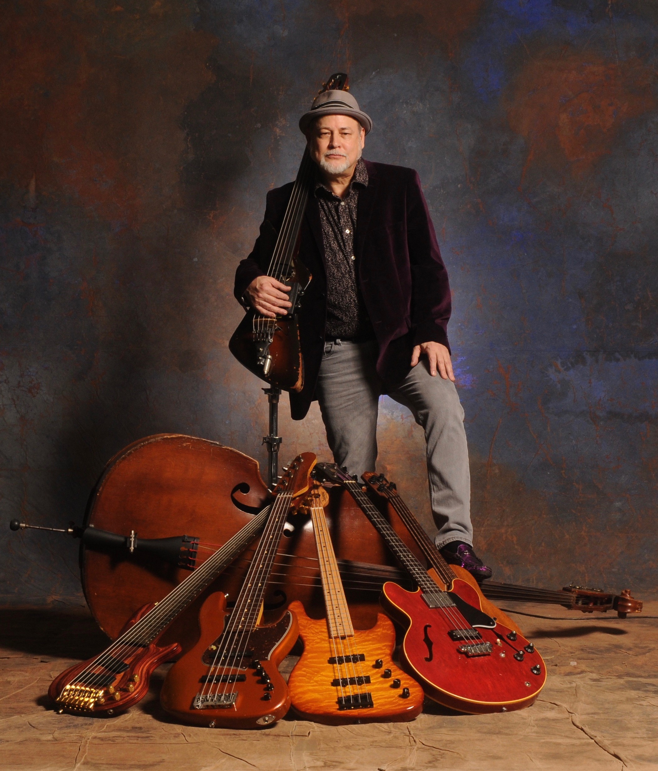 Dave Pomeroy with 5 of his 62 basses.